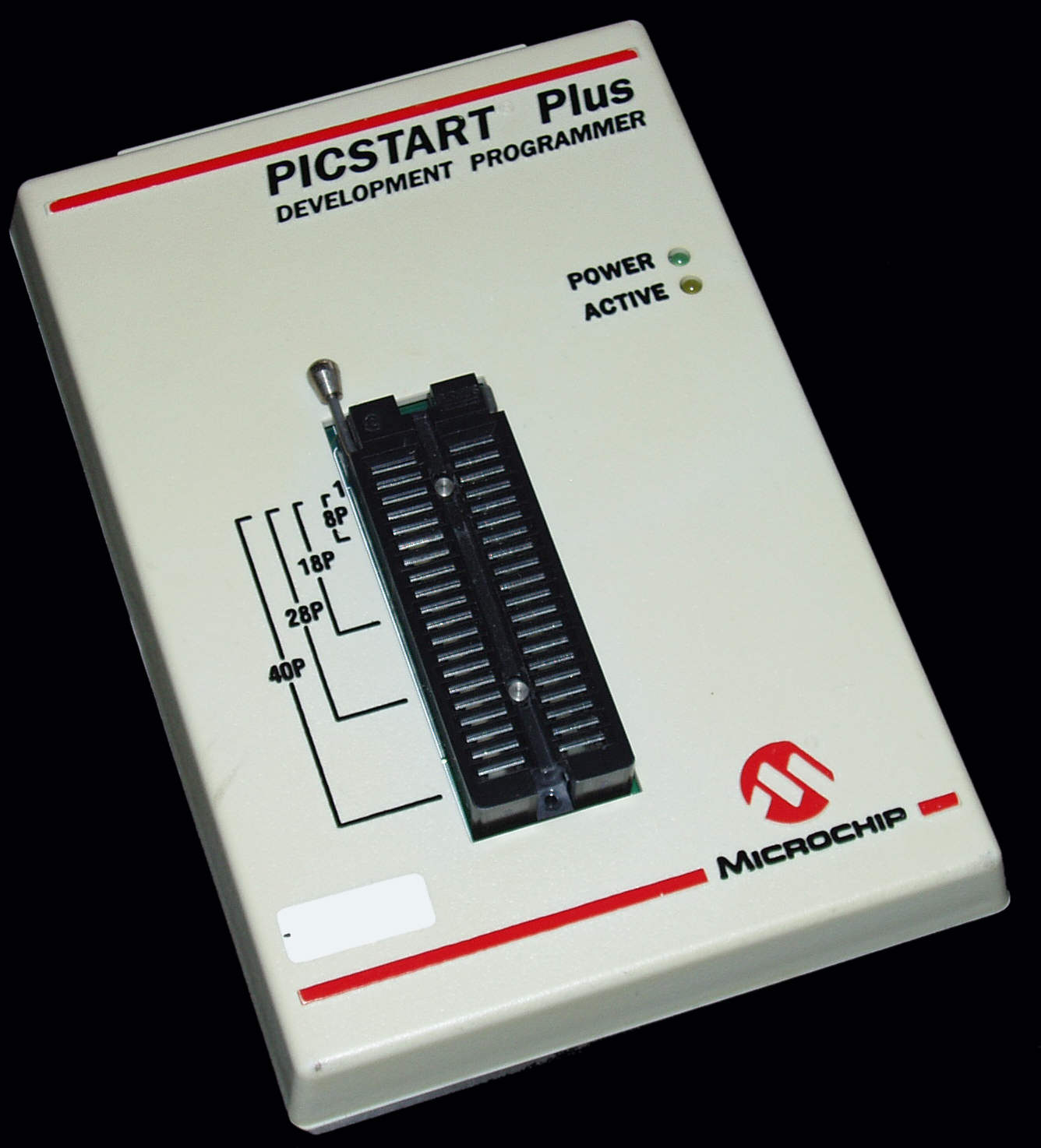 PICstart+ development programmer from Microchip Technologies Inc.